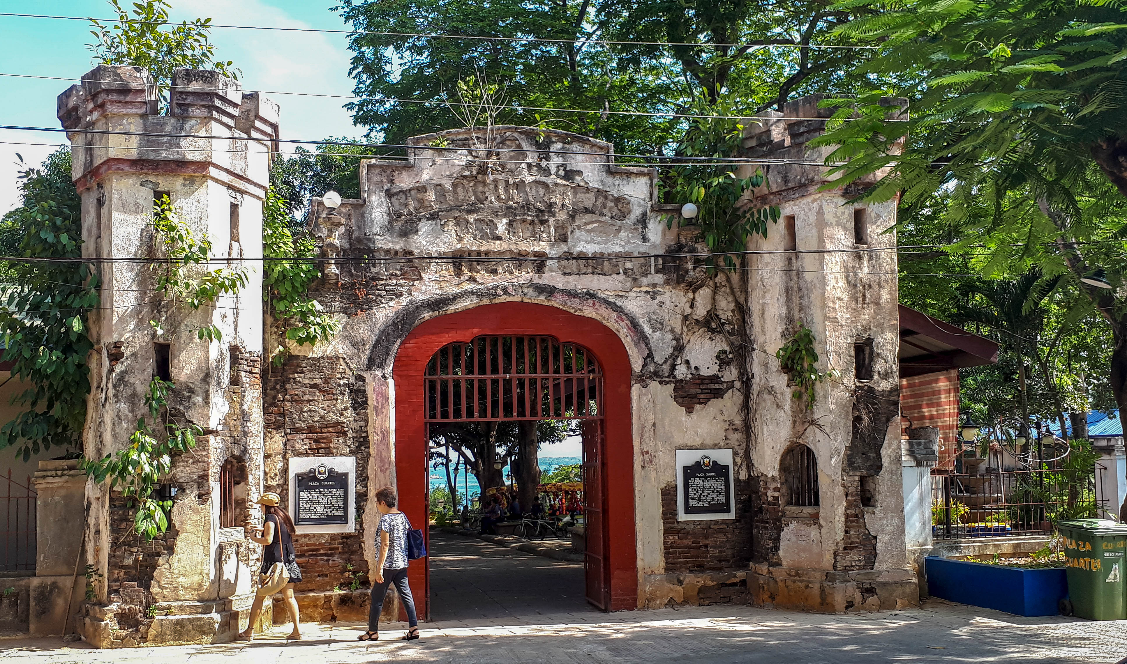 A historical WW2 landmark